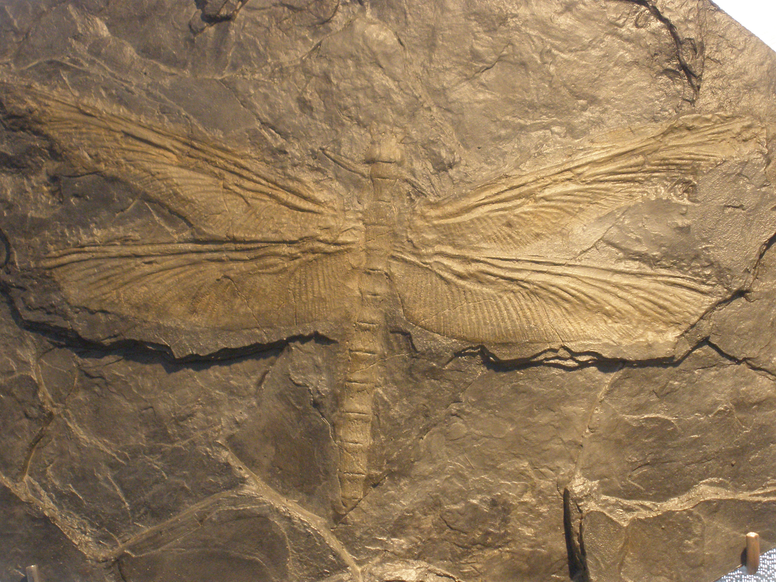 Falsified fossil of a meganeurid dragonfly. The falsification is evident from the incorrect structure of the thoracic and abdominal segments, and the incorrect position of the wing bases at the wrong segments. Furthermore, there exists no meganeurid fossil that is likewise complete. Clarification regarding it's being false given by Dr. Günter Bechly.